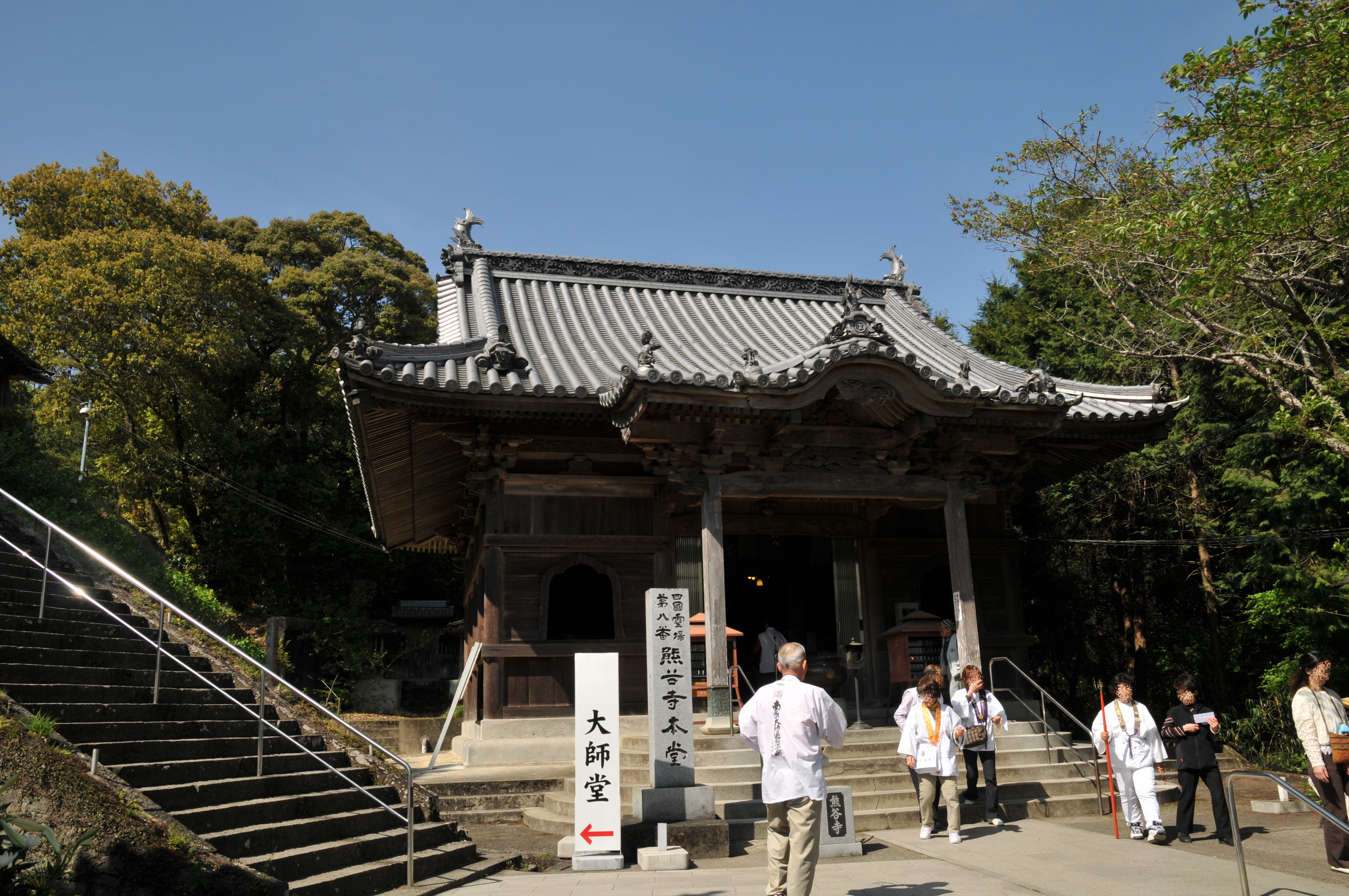 Main temple, Kumatani-ji